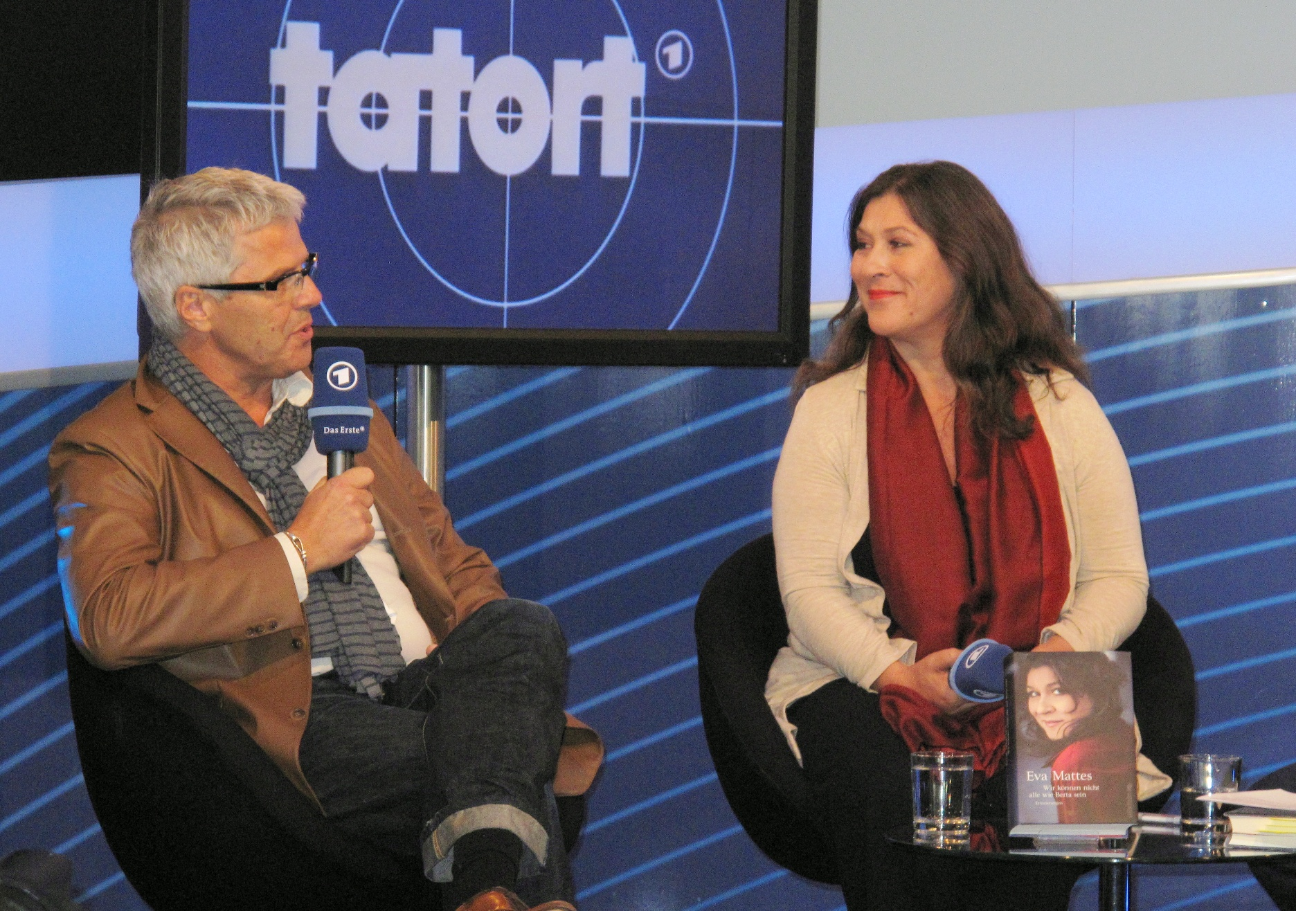 Frankfurt Book Fair 2011